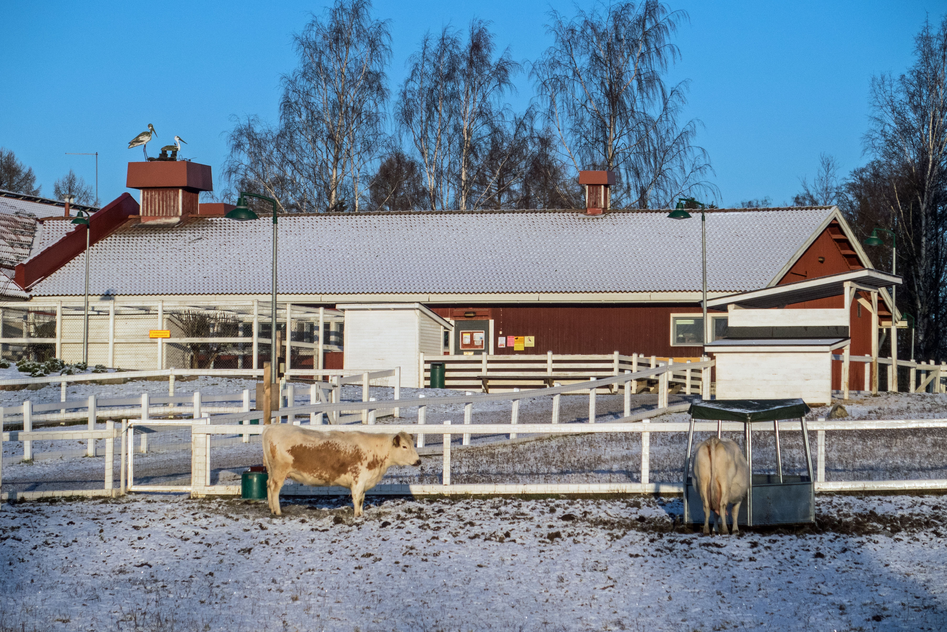 Cattle